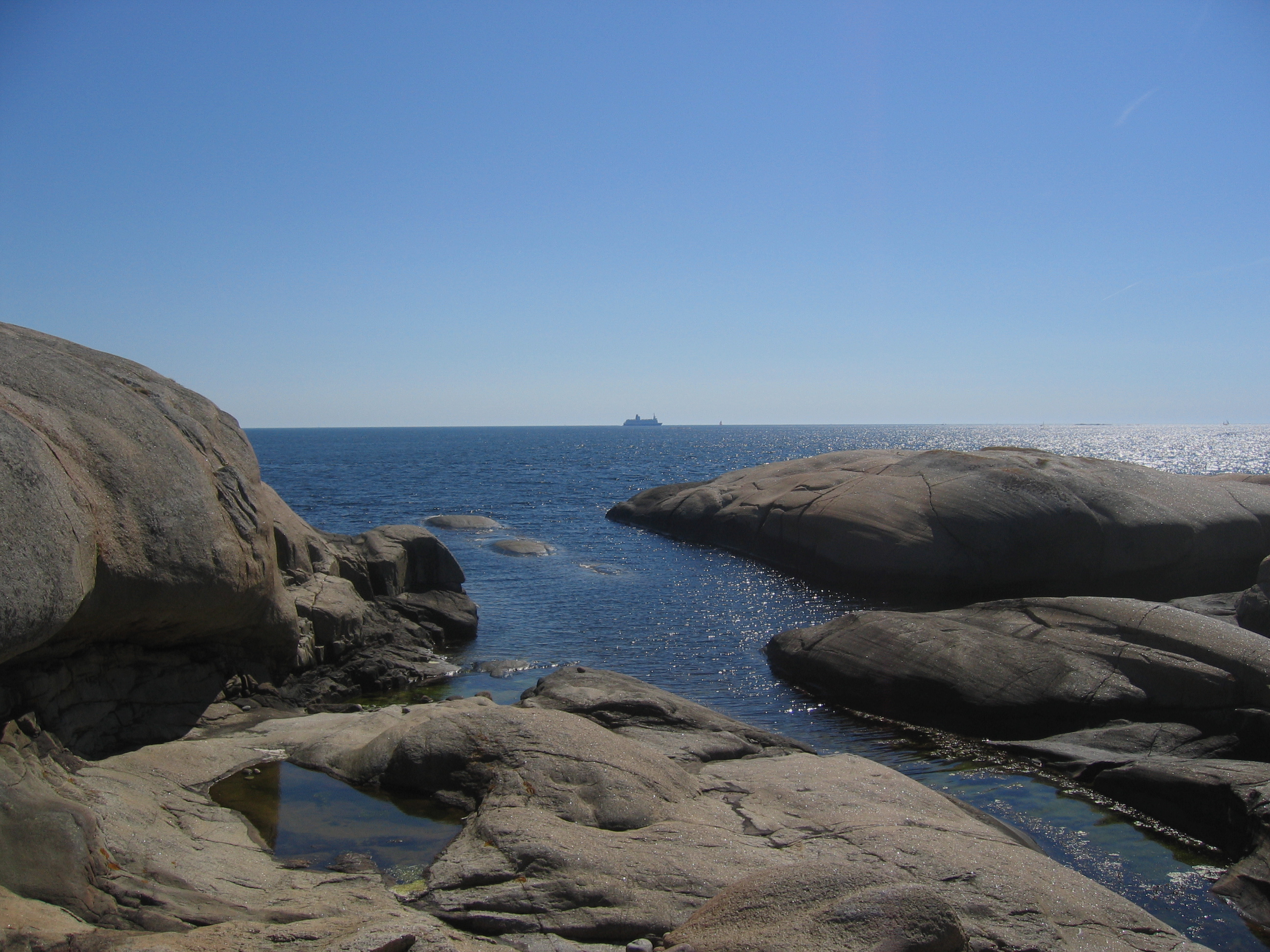 Island Kløvningen in Tjøme muncipality, Vestfold county, Norway. Rocks of larvikitt. Carferry Sandefjord - Strømstad passing south of Tjøme.